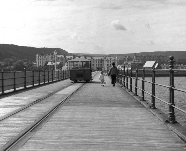 The Queens Pier Tram, Ramsey, Isle of Man